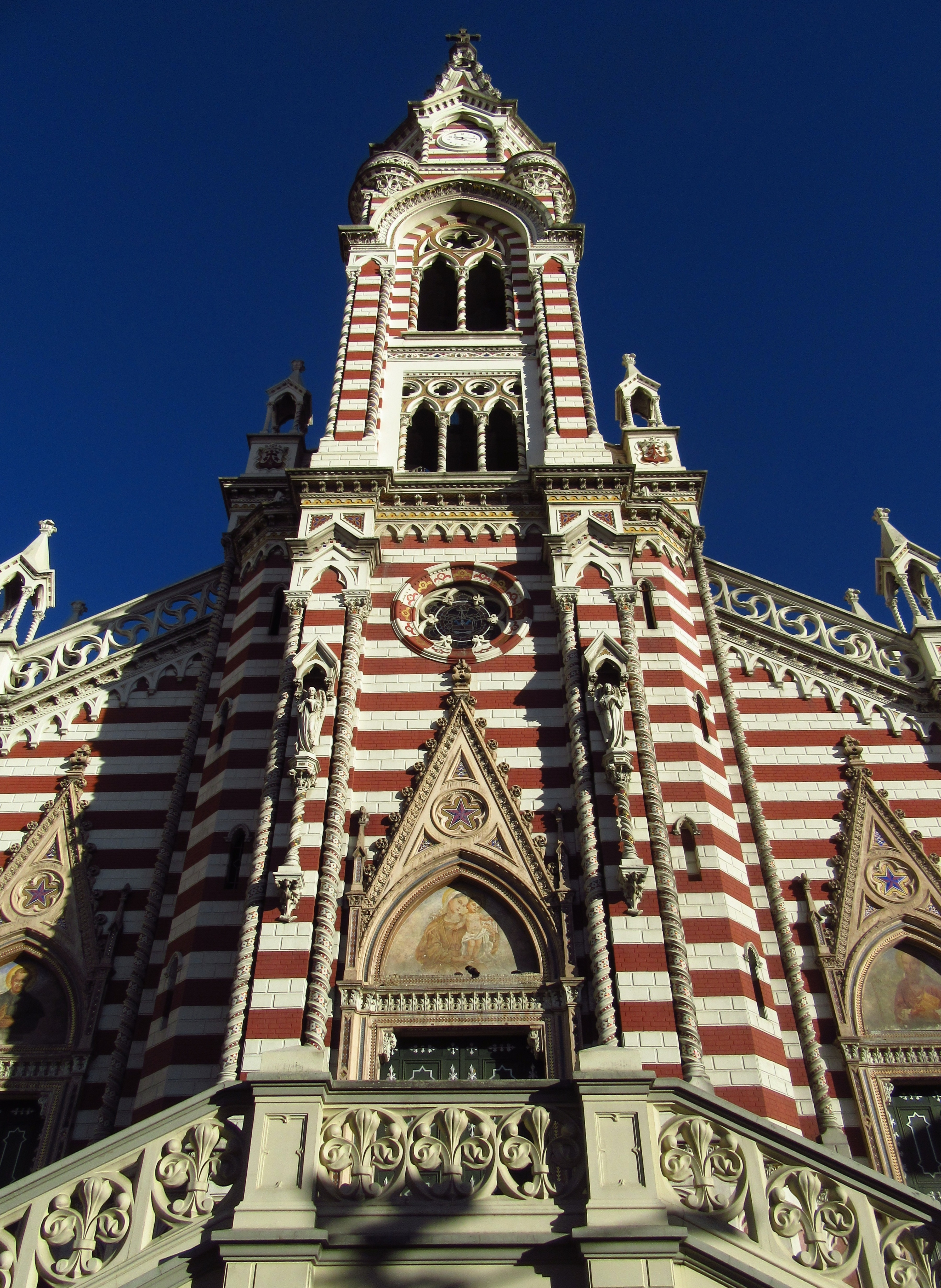 Bogotá